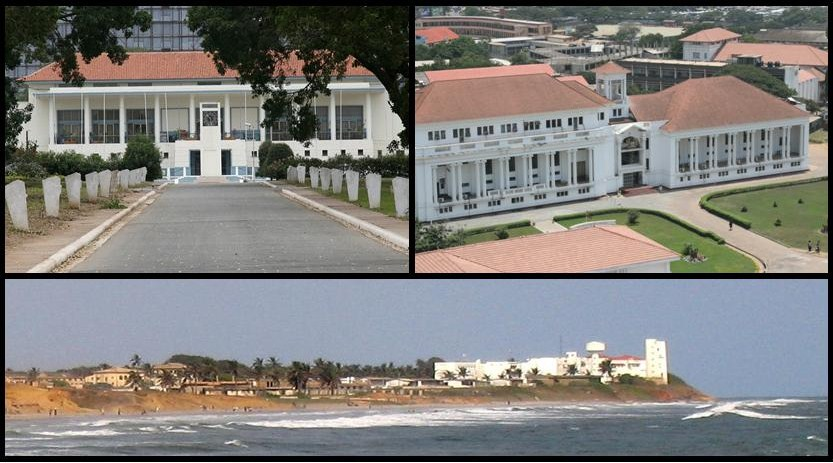 The Government of Ghana buildings: Parliament House of Ghana, Supreme Court of Ghana building, and Osu Castle the seat of government in Ghana.